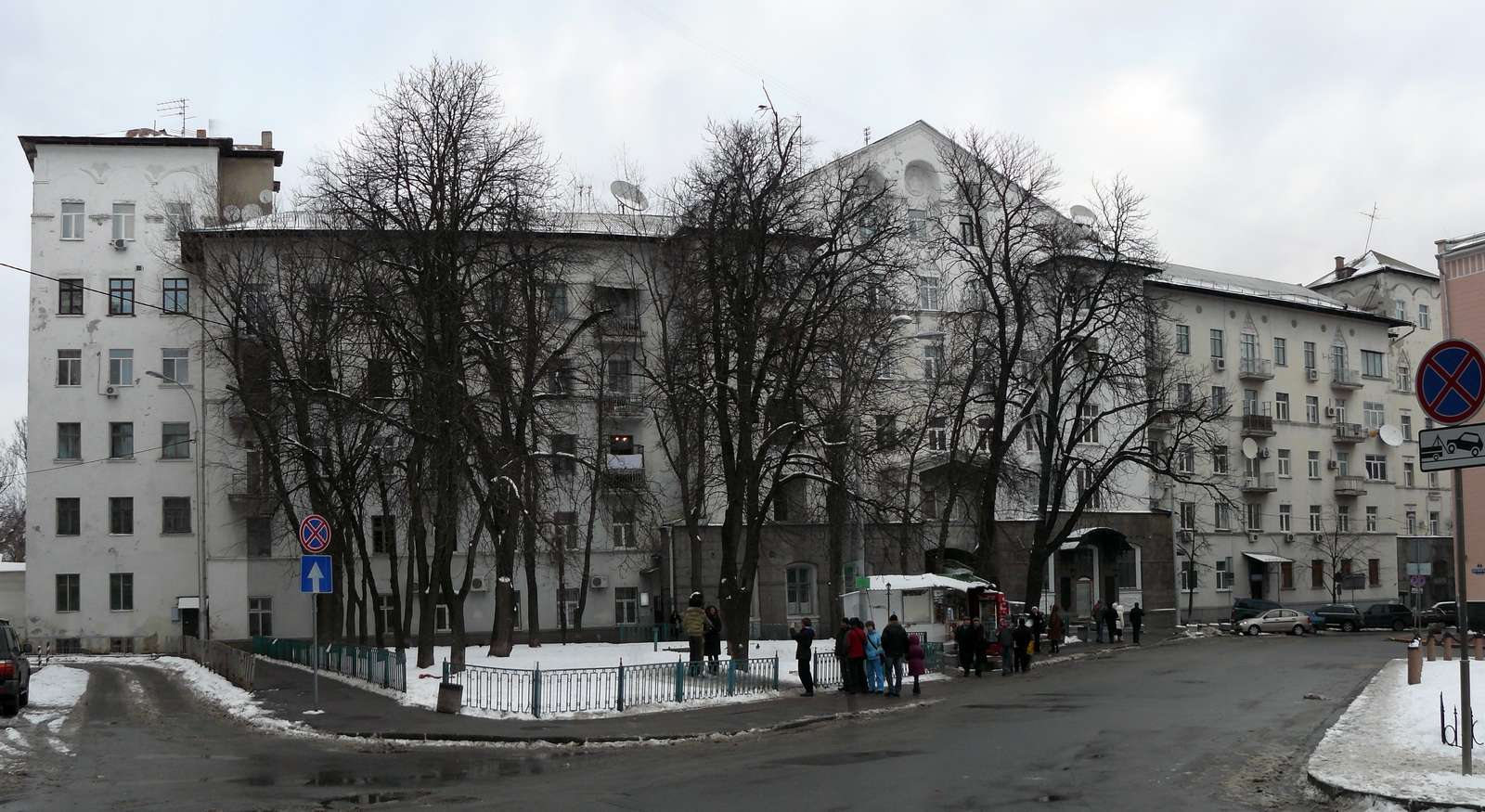 Georgievski lane 2, Kiev, Ukraine. Work of architect Karakis.